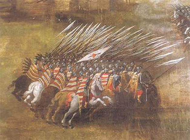 Hussar formation at the Battle of Klushino (1610), painting by Szymon Boguszowicz, 1620. See: Category:Polish-Lithuanian Commonwealth historical images